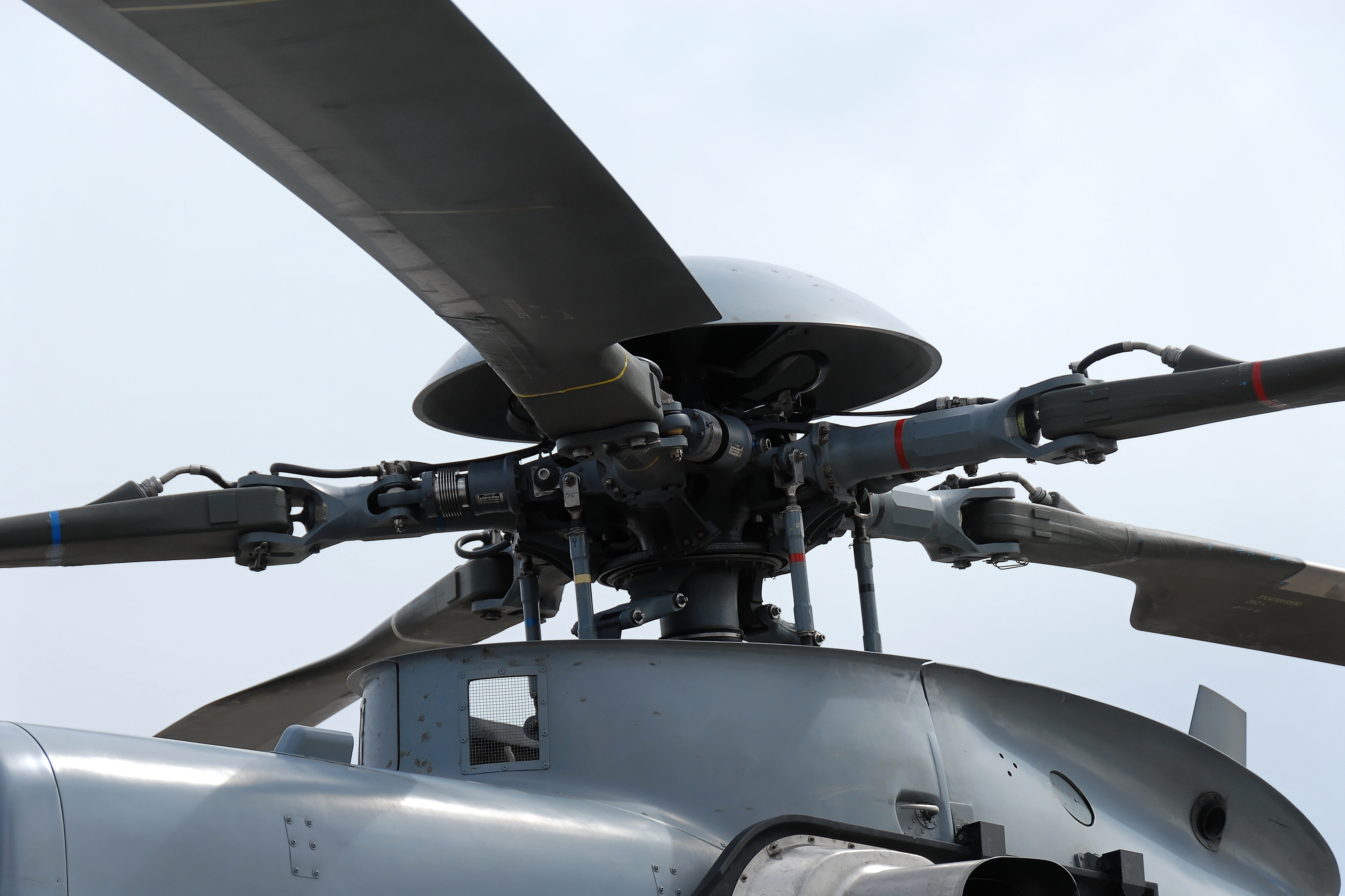 Close-up on the rotor of an Eurocopter Cougar EC-725 MkII at the 2007 International Paris Air Show at the Le Bourget airport.